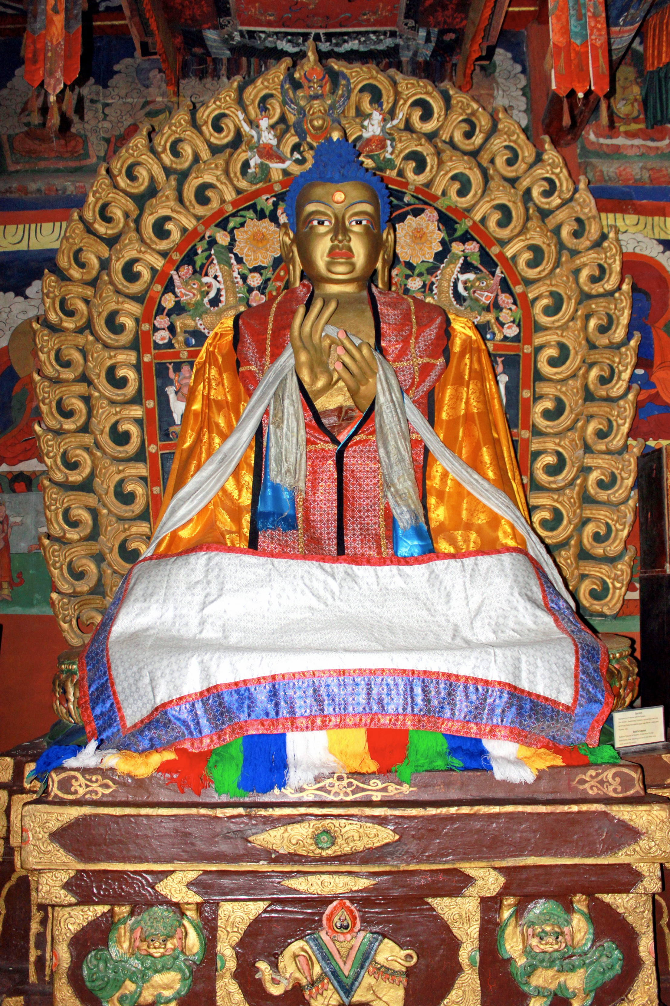 Sanjaa (Buddha Dīpankara) - the past Buddha. Western Temple in the Erdene Zuu Monastery. Kharkhorin, Övörkhangai Province, Mongolia.